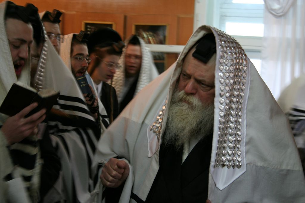 Toldos Avraham Yitzchok Rebbe during morning prayers